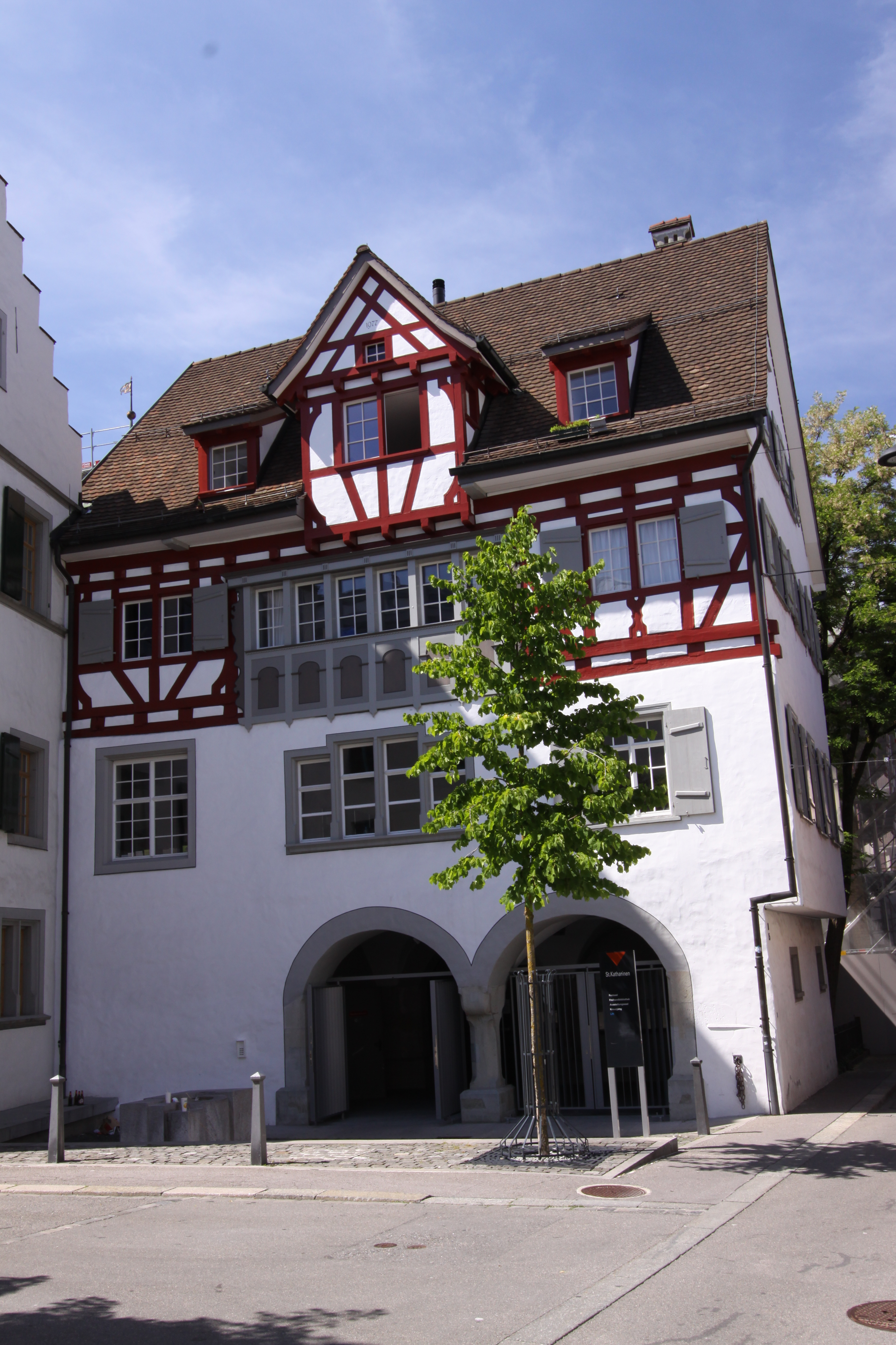 Former Dominican Convent of St. Katharina, Katharinengasse 15, St. Gallen